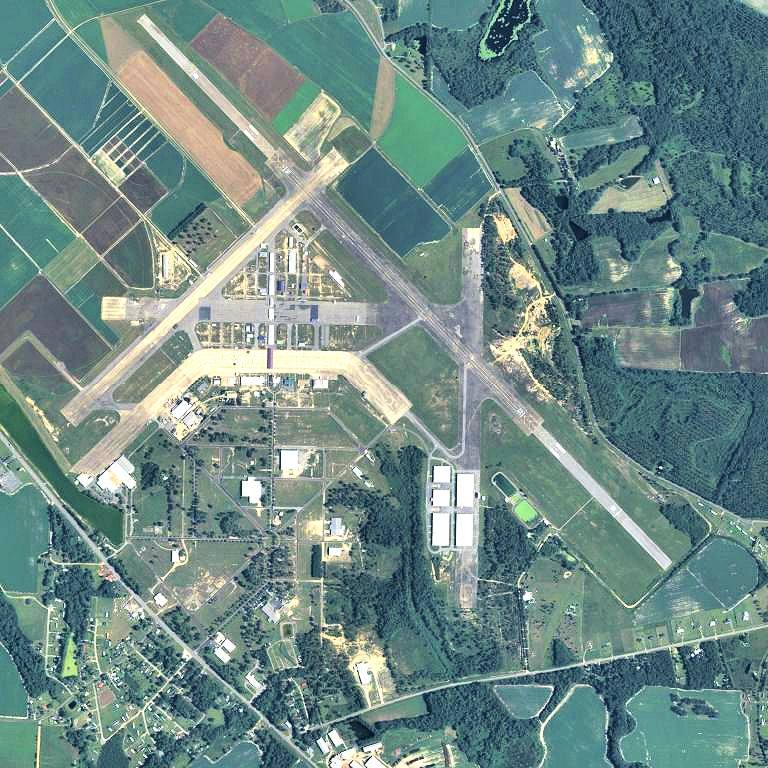 USGS digital orthophoto of Spence Airport in the U.S. state of Georgia